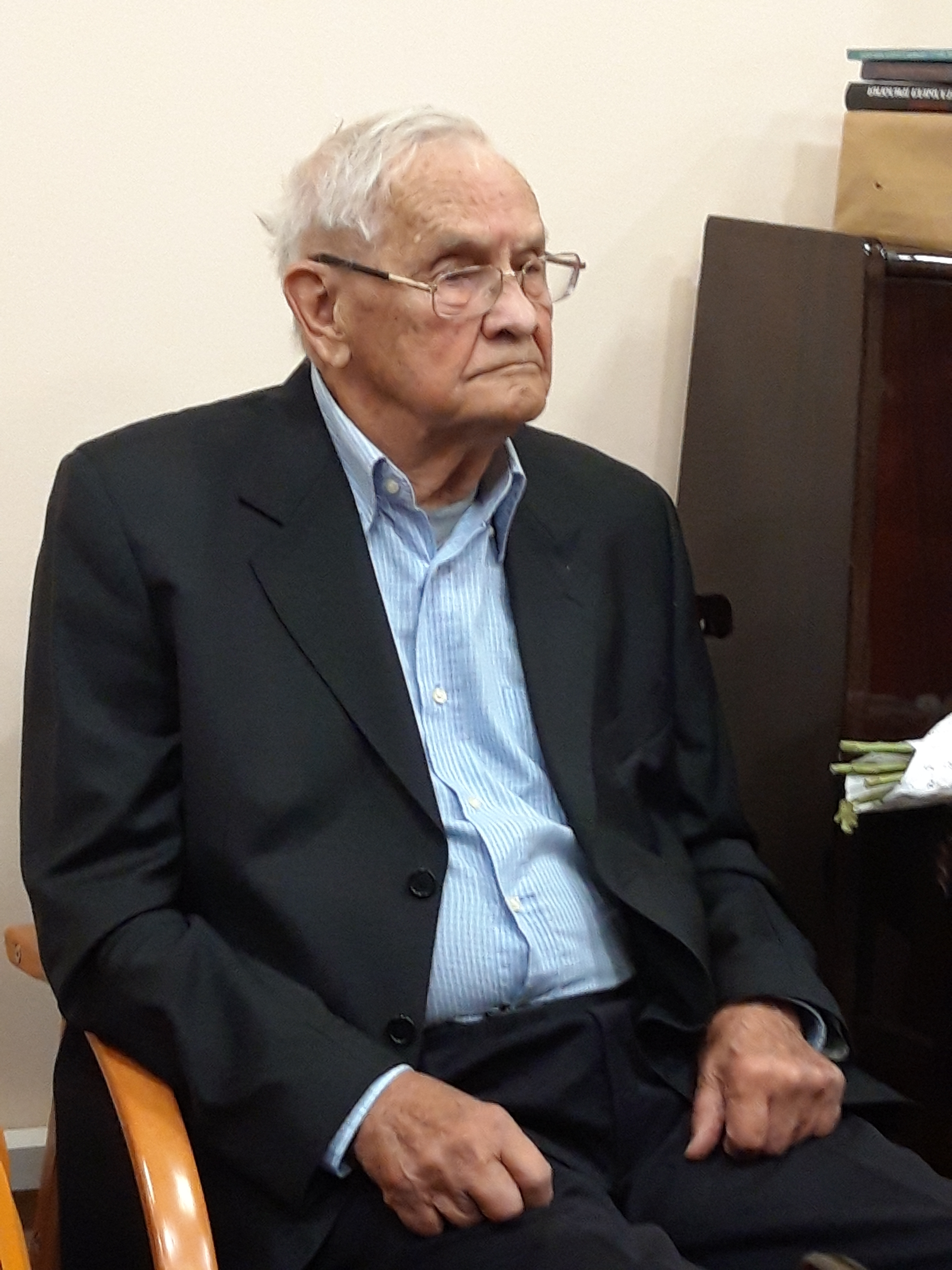 Volodymyr Korolyuk, the Ukrainian Mathematician during 110th annivesary celebrarion of the Library Demiivska in Kyiv on the 6th November 2019